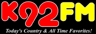 Former logo of the radio station WWKA used between 1997 and December 2011.